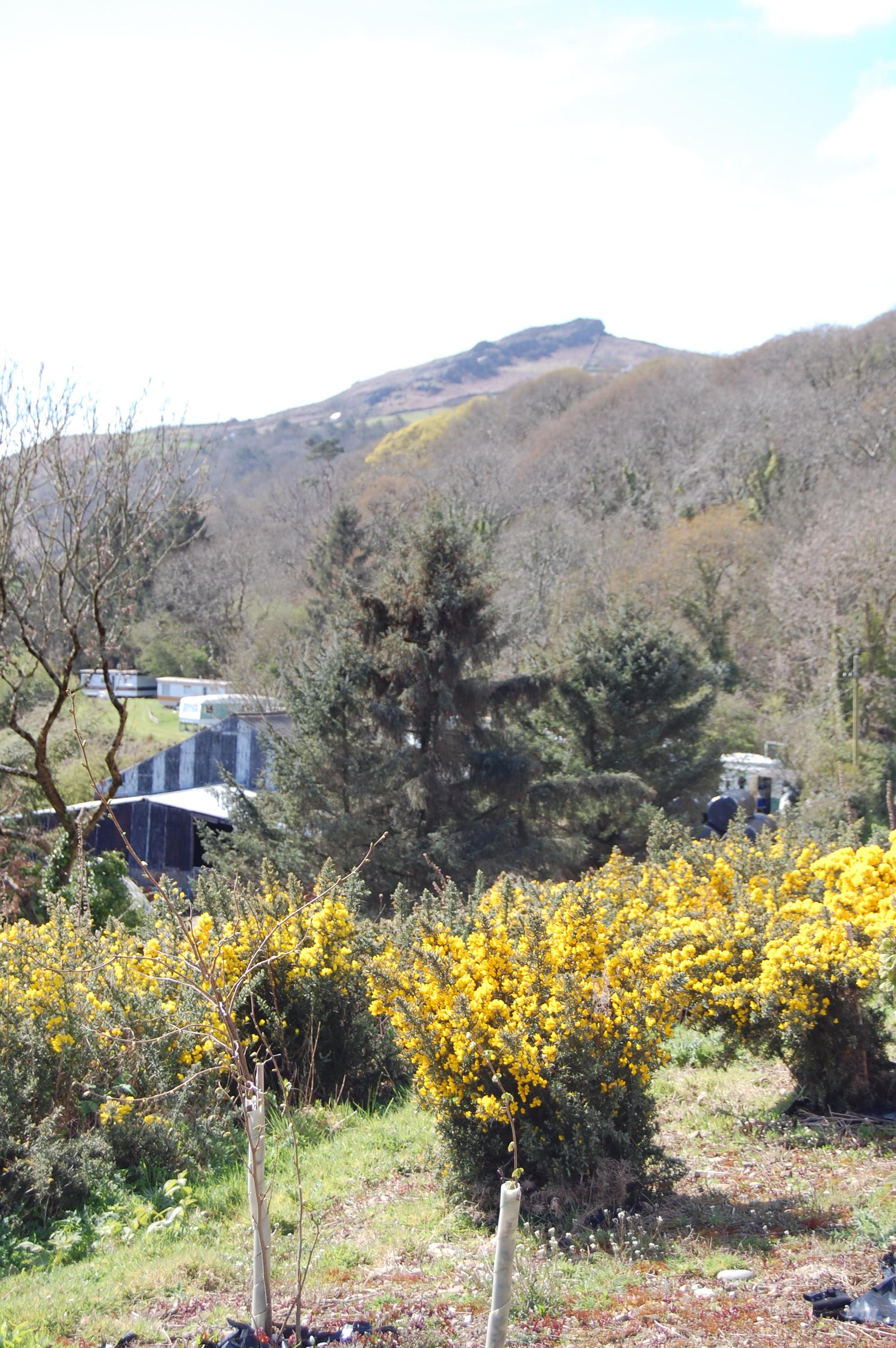 Caravan site at the hamlet of Rhiw in Aberdaron, Gwynedd.